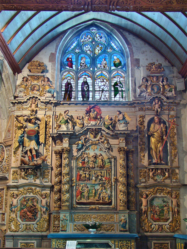 Parish close, Lampaul-Guimiliau, Finistère, Bretagne, France. Retable of John the Baptist.